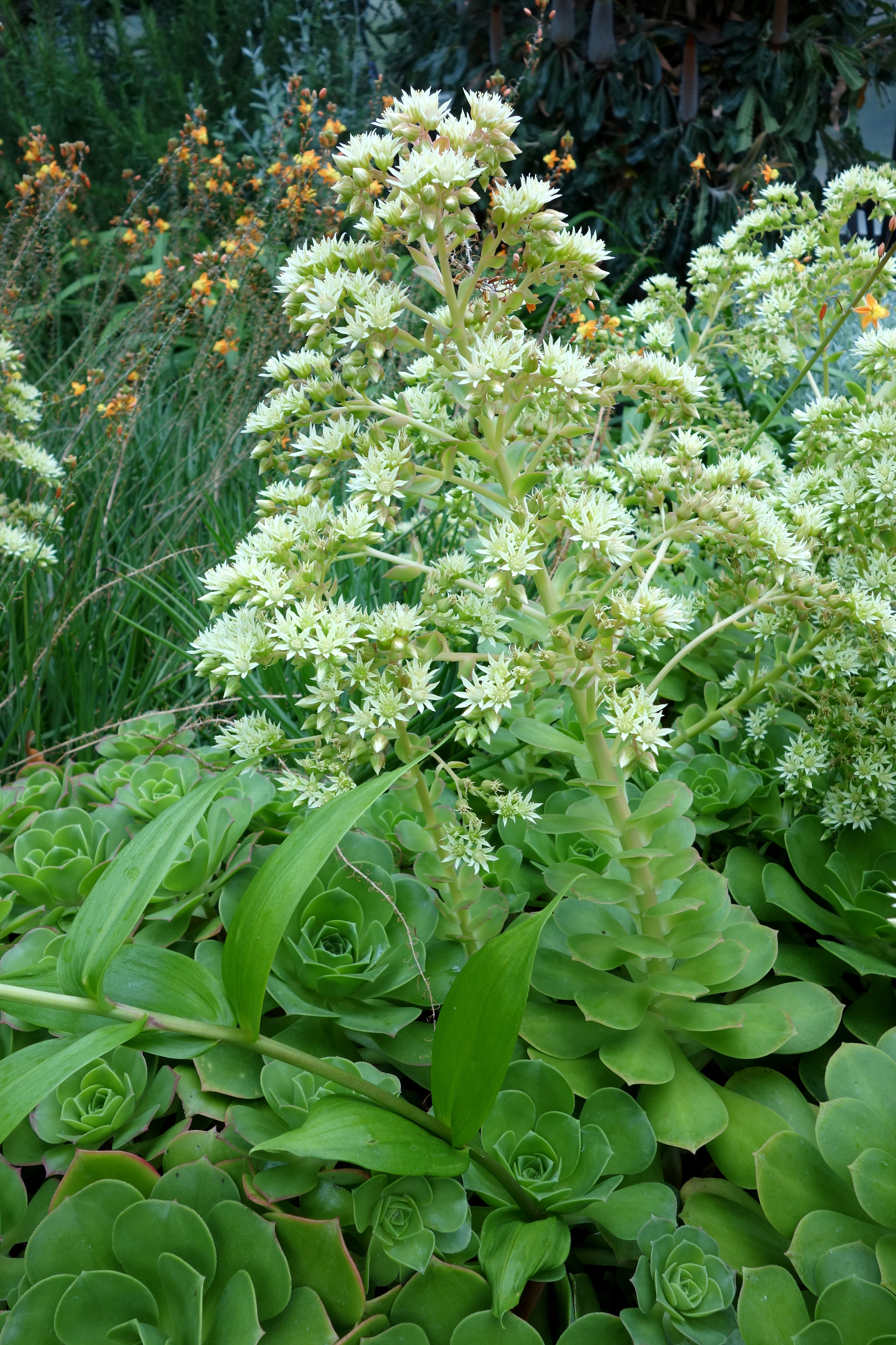 Botanical specimen in Longwood Gardens, 1001 Longwood Rd, Kennett Square, Pennsylvania, USA.